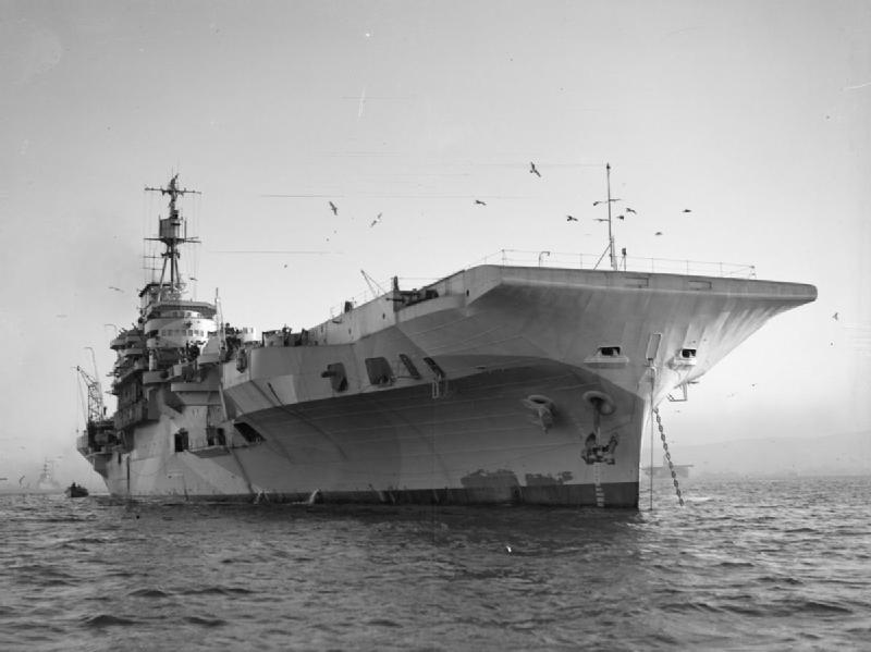 The Royal Navy during the Second World War HMS INDEFATIGABLE at anchor at Greenock.